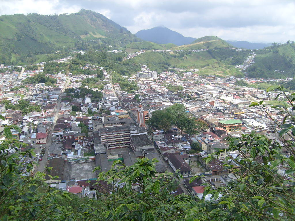 municipio de Fresno